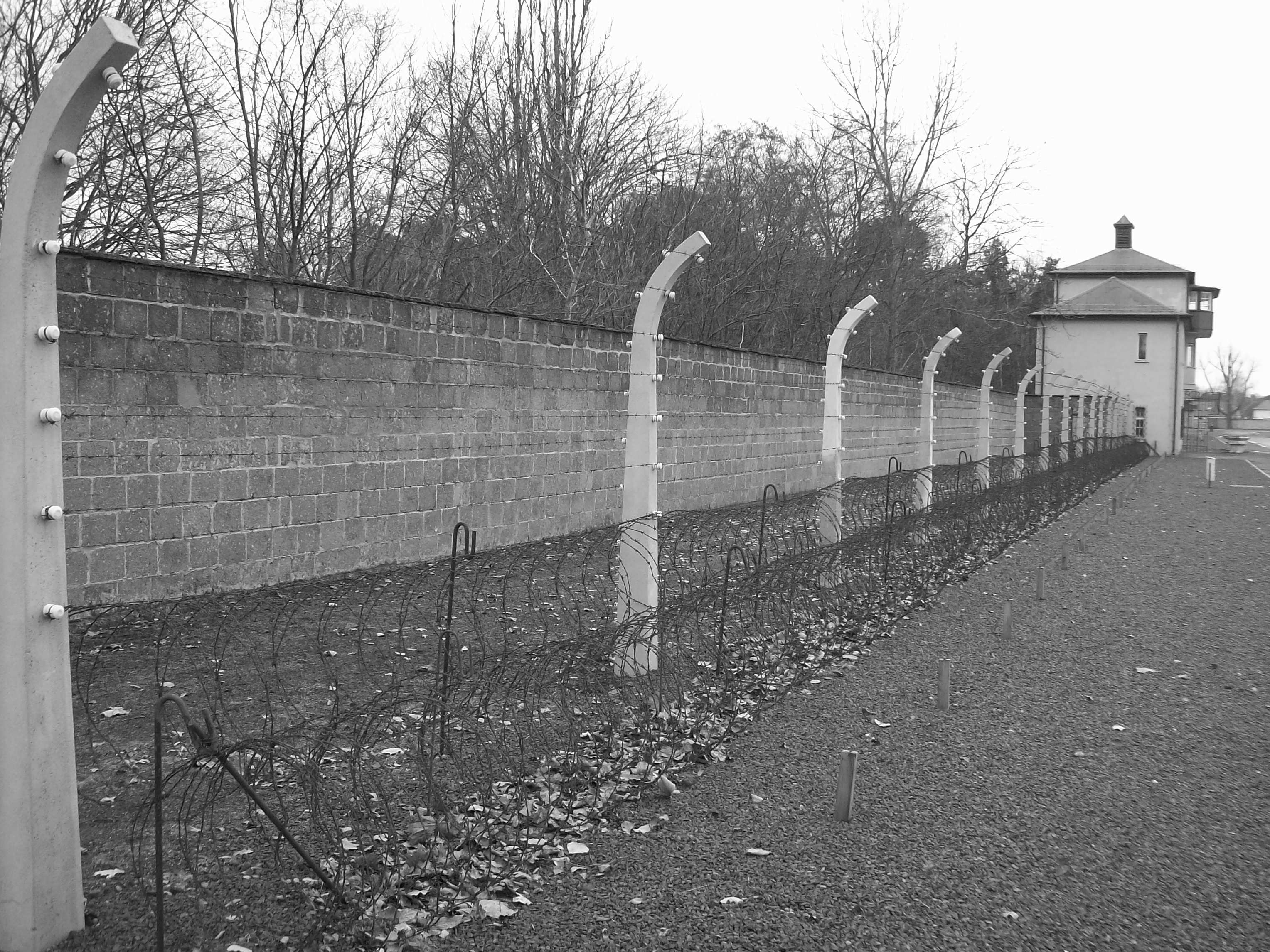 A model of the security perimeter fence around the concentration camp of Sachsenhausen as it was during the time of the National Socialist Party's usage of the facility.